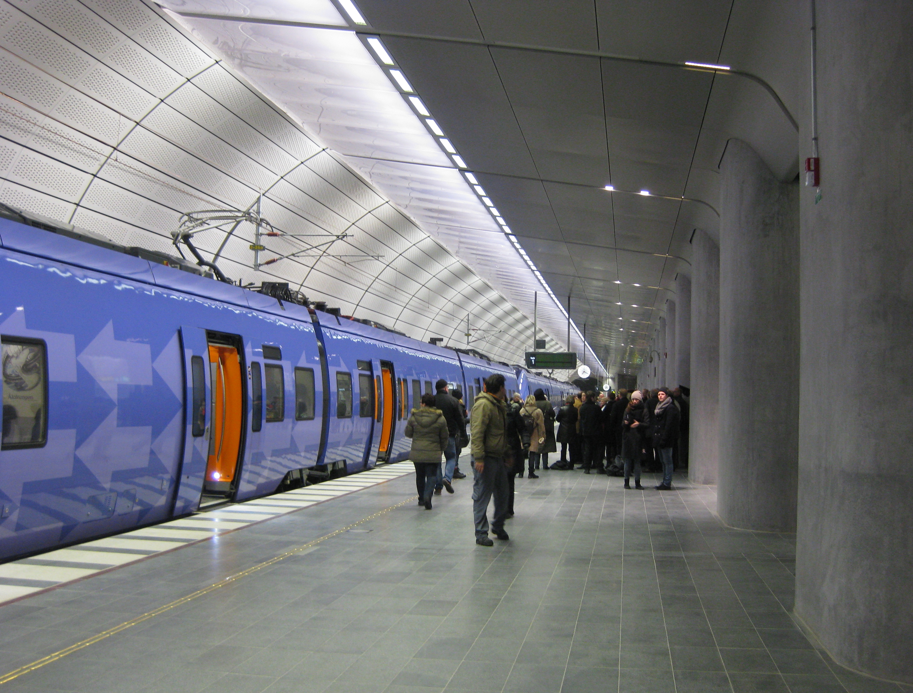 Station Triangeln, Platform for the City tunnel